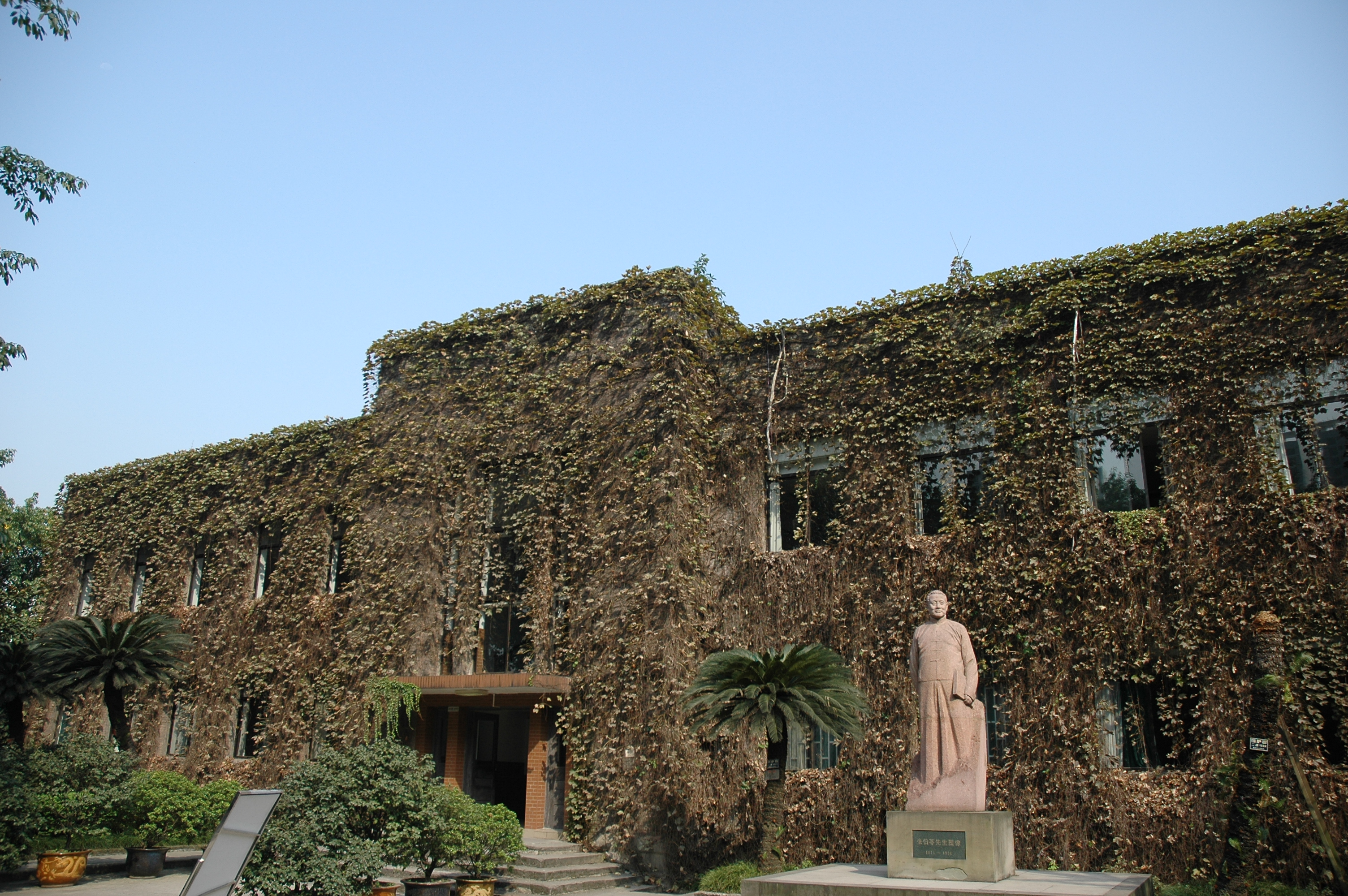 A photo of Office Building of Nankai